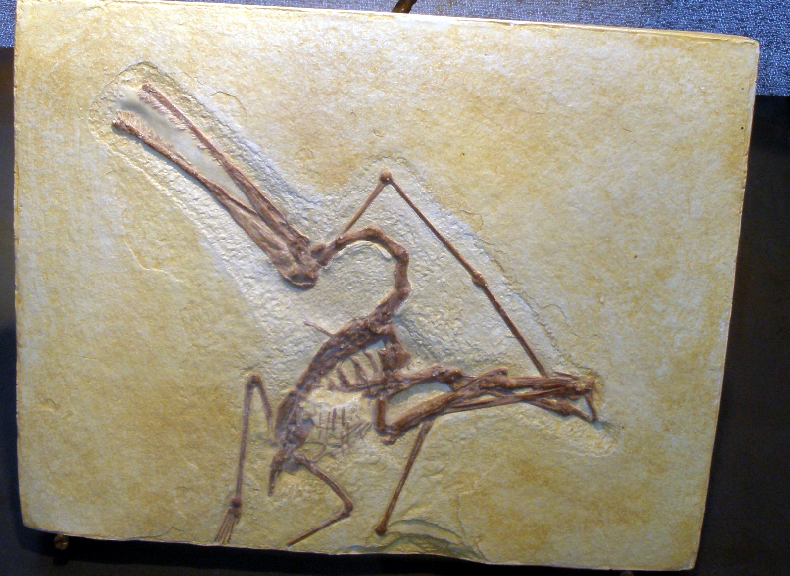 Fossil specimen BSP 1935.I.24 (Ctenochasma elegans), an extinct pterosaur